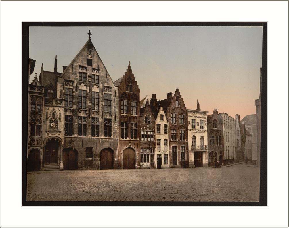 The library Bruges Belgium